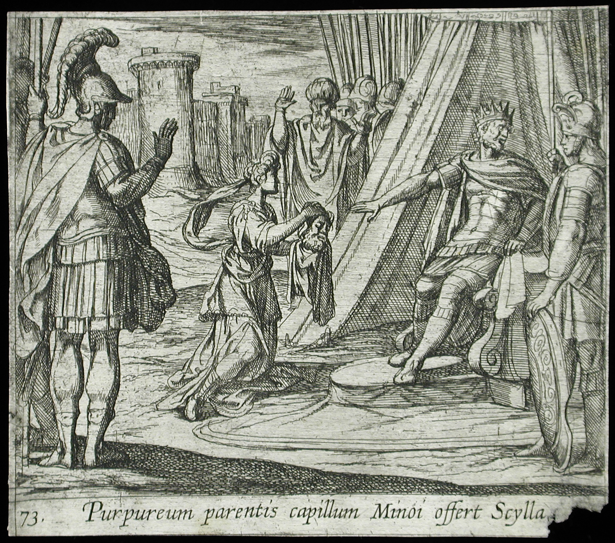 Italy, published 1606 Alternate Title: Purpureum parentis capillum Minoi offert Scylla Series: The Metamorphoses of Ovid, pl. 73 Edition: Second edition Prints; etchings Etching Los Angeles County Fund (65.37.156) Prints and Drawings